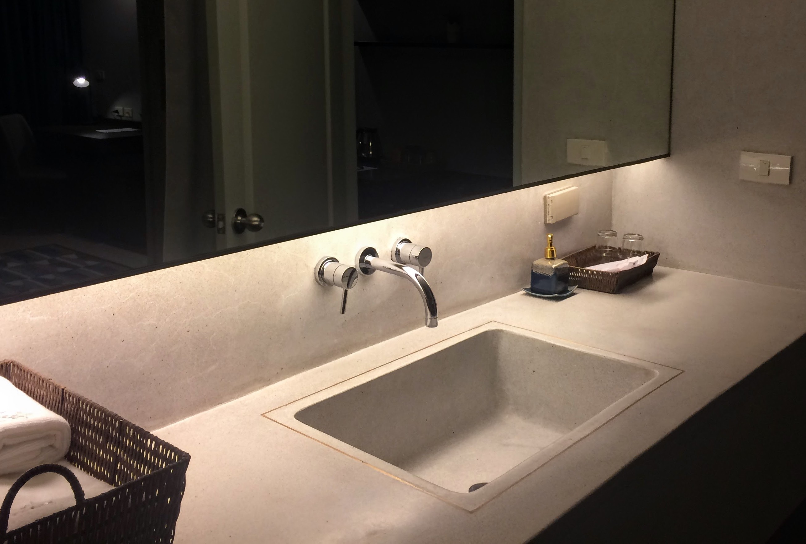 Sink with hot and cold water taps, hand soap and a mirror